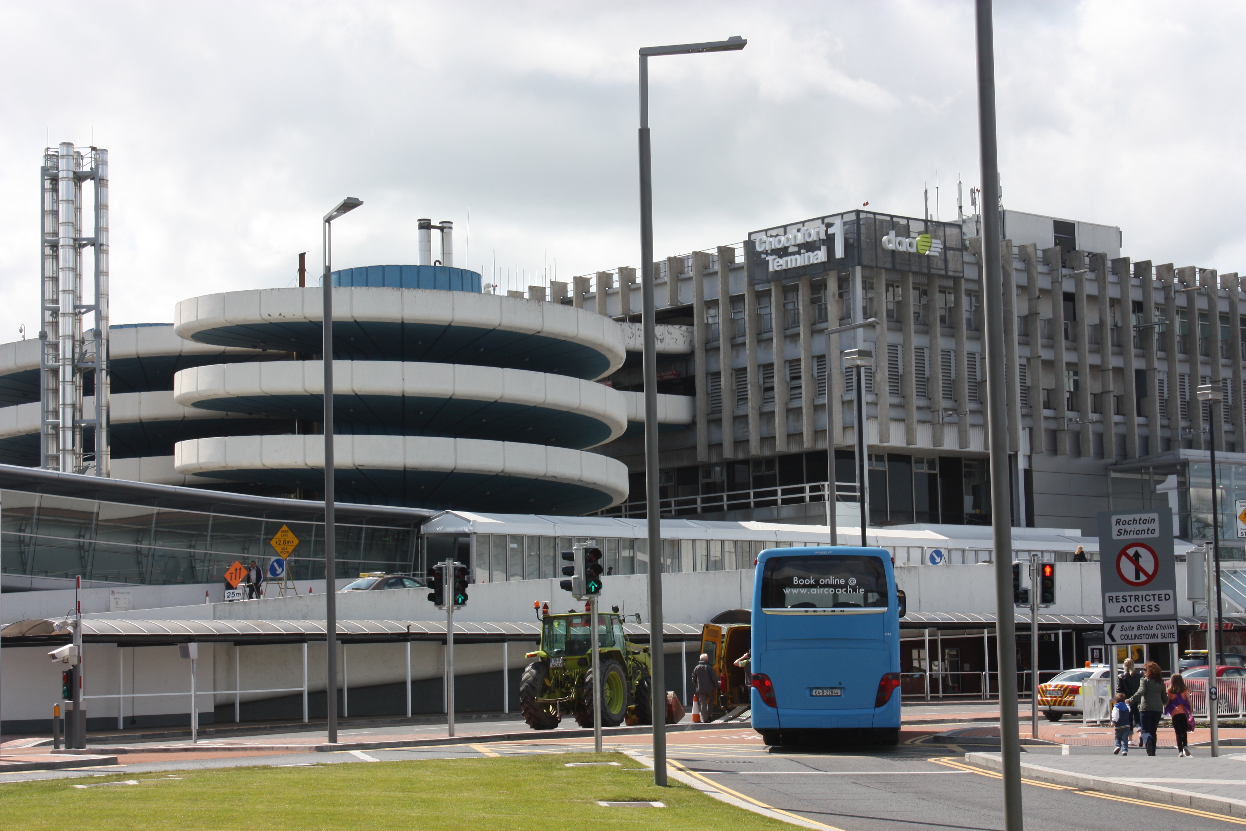 Terminal 1, Dublin Airport, Dublin, Ireland, May 2011